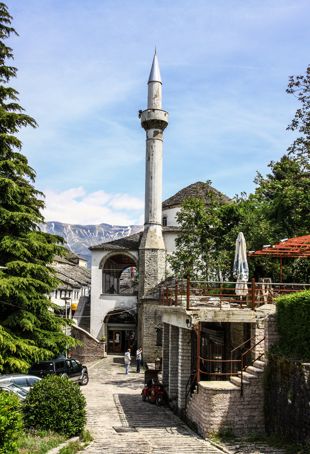 Mosque of Gjirokaster